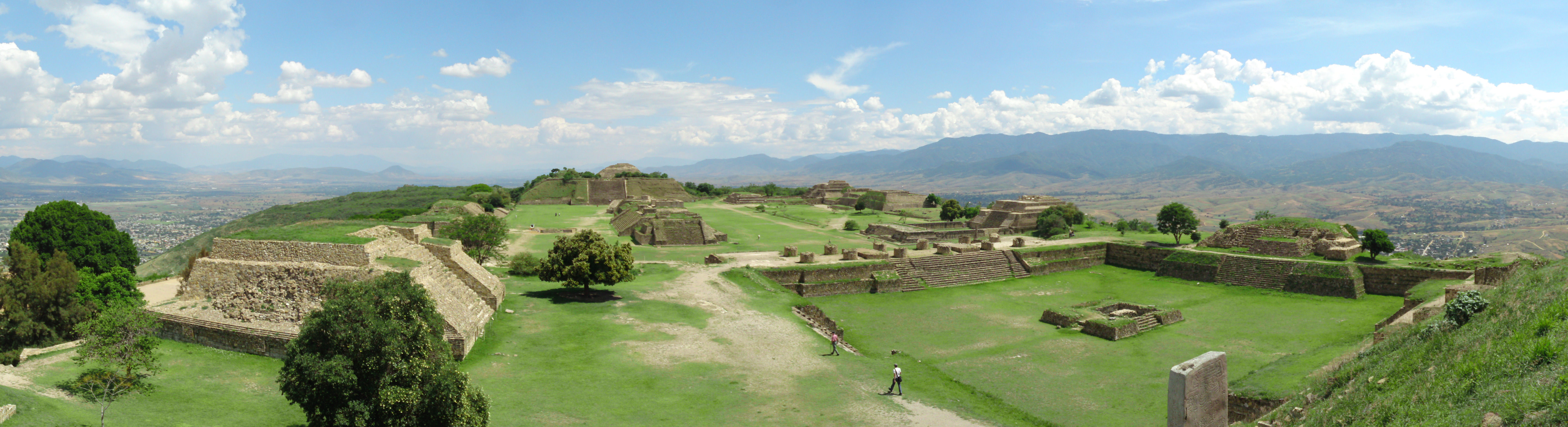 Panarama view on Monte Alban in Oaxaca, Mexico taken from the northern platform. Created using Hugin Software.